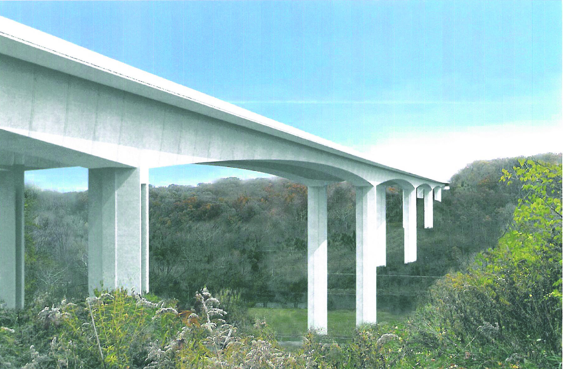 A drawing of the new Jeremiah Morrow Bridge, currently under construction.